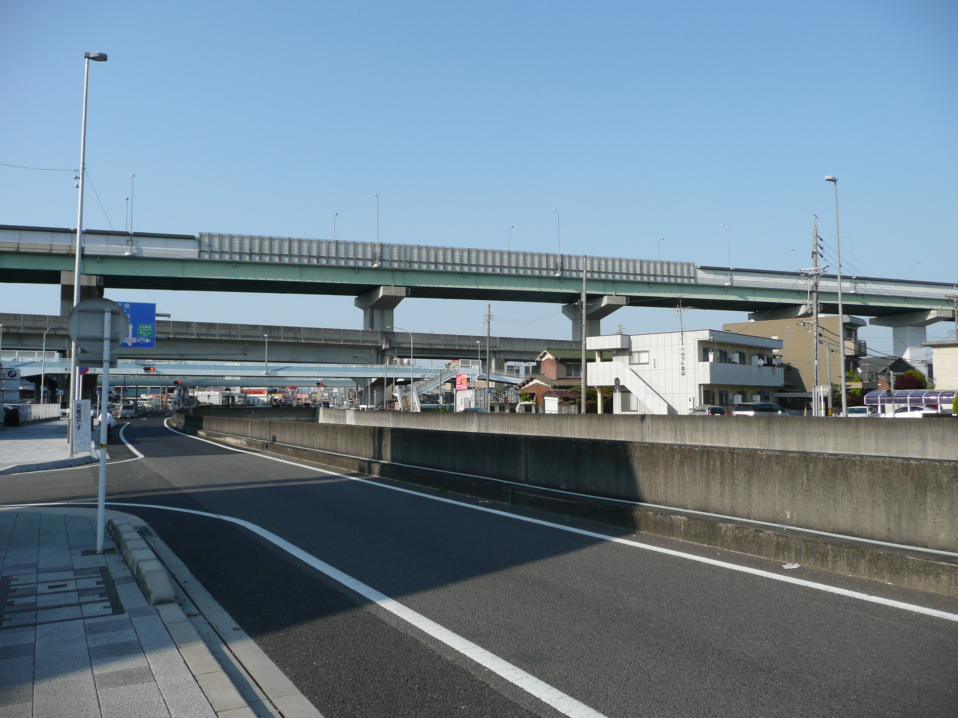 勝川口駅跡地